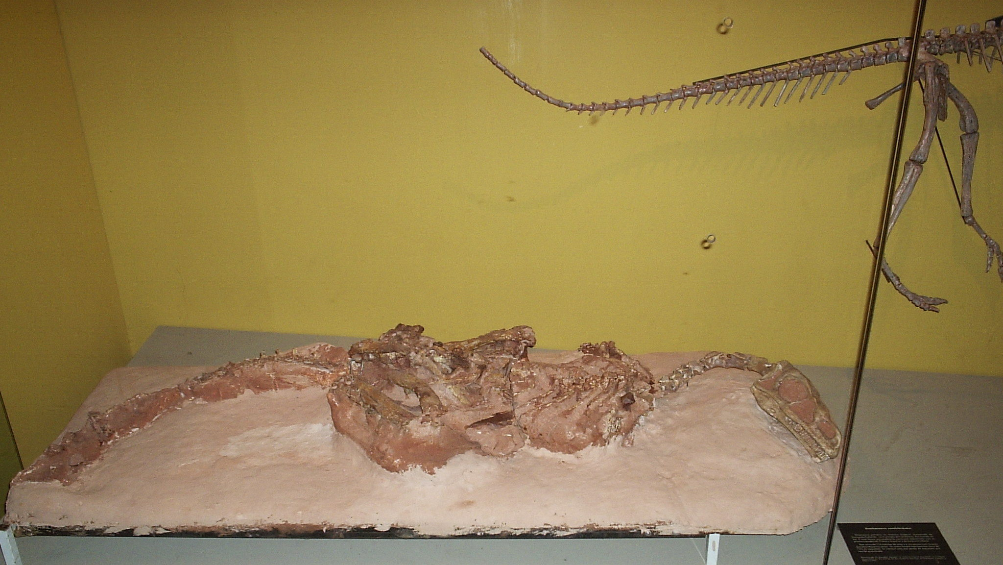 Fossil skeleton of Guaibasaurus, a basal Saurischian dinosaur genus